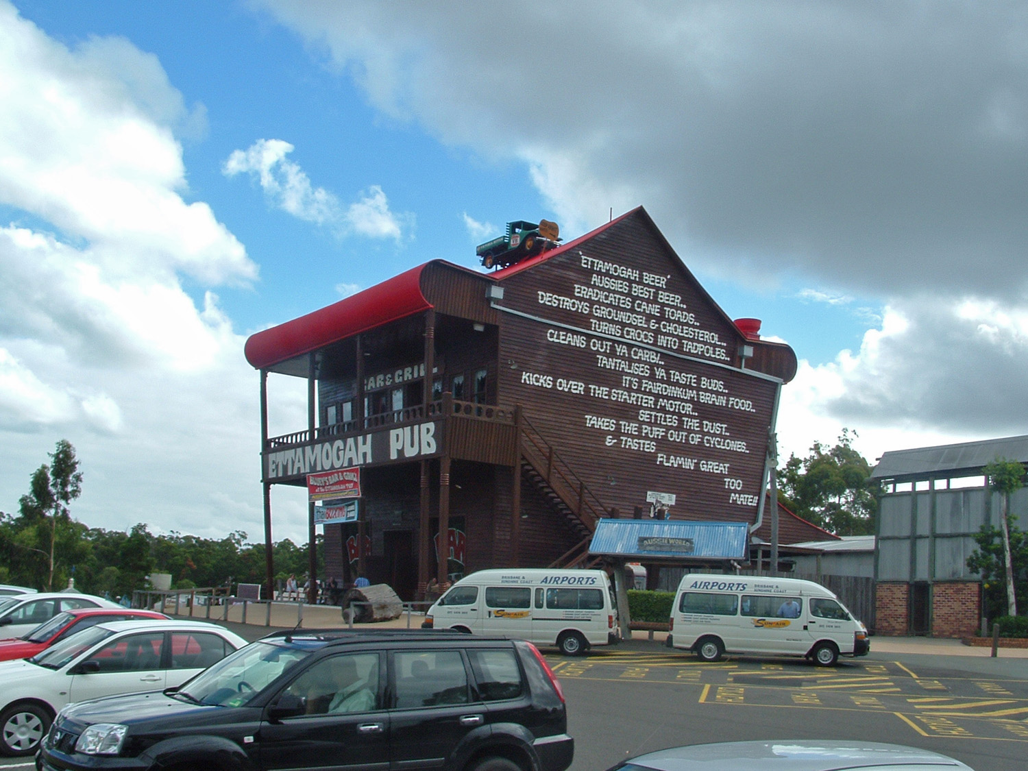 Ettamogah Pub on the Sunshine Coast in Queensland, Australia